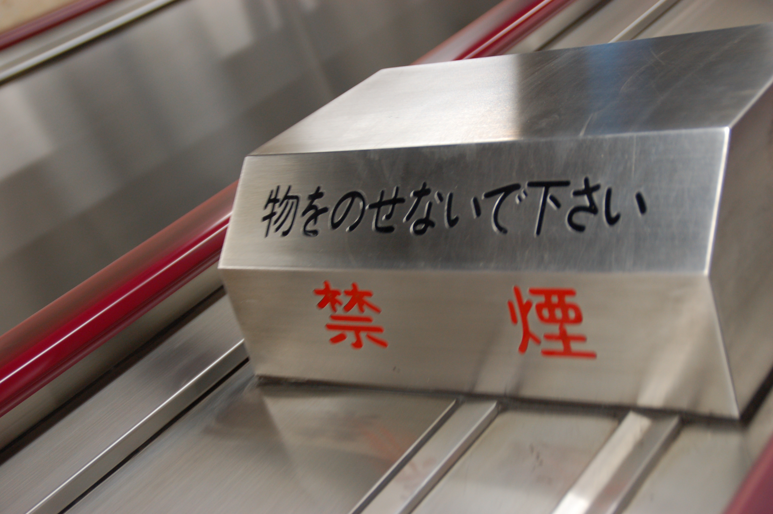 Dont put anything here. No smoking.